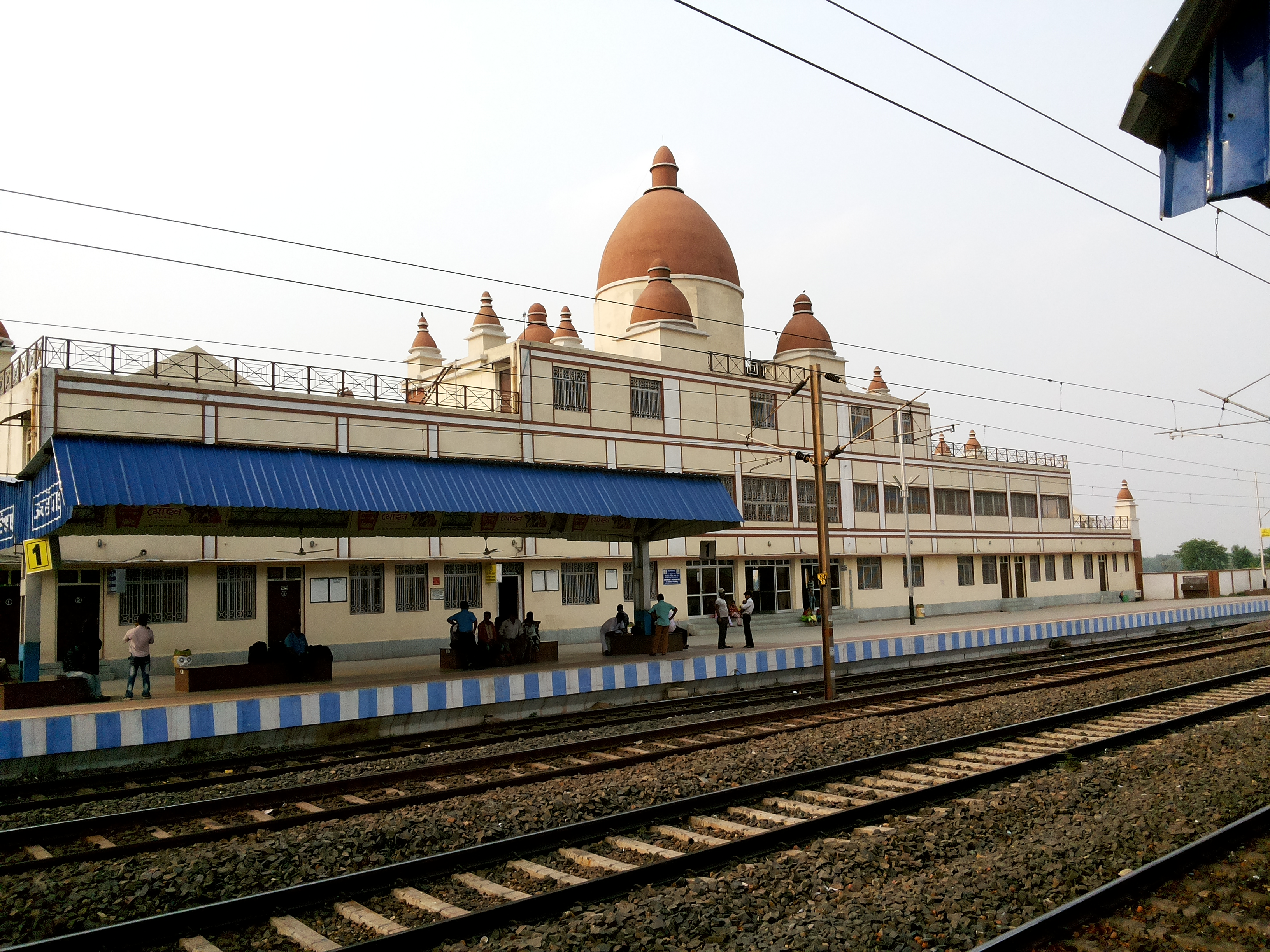 Joychandipahar railway station